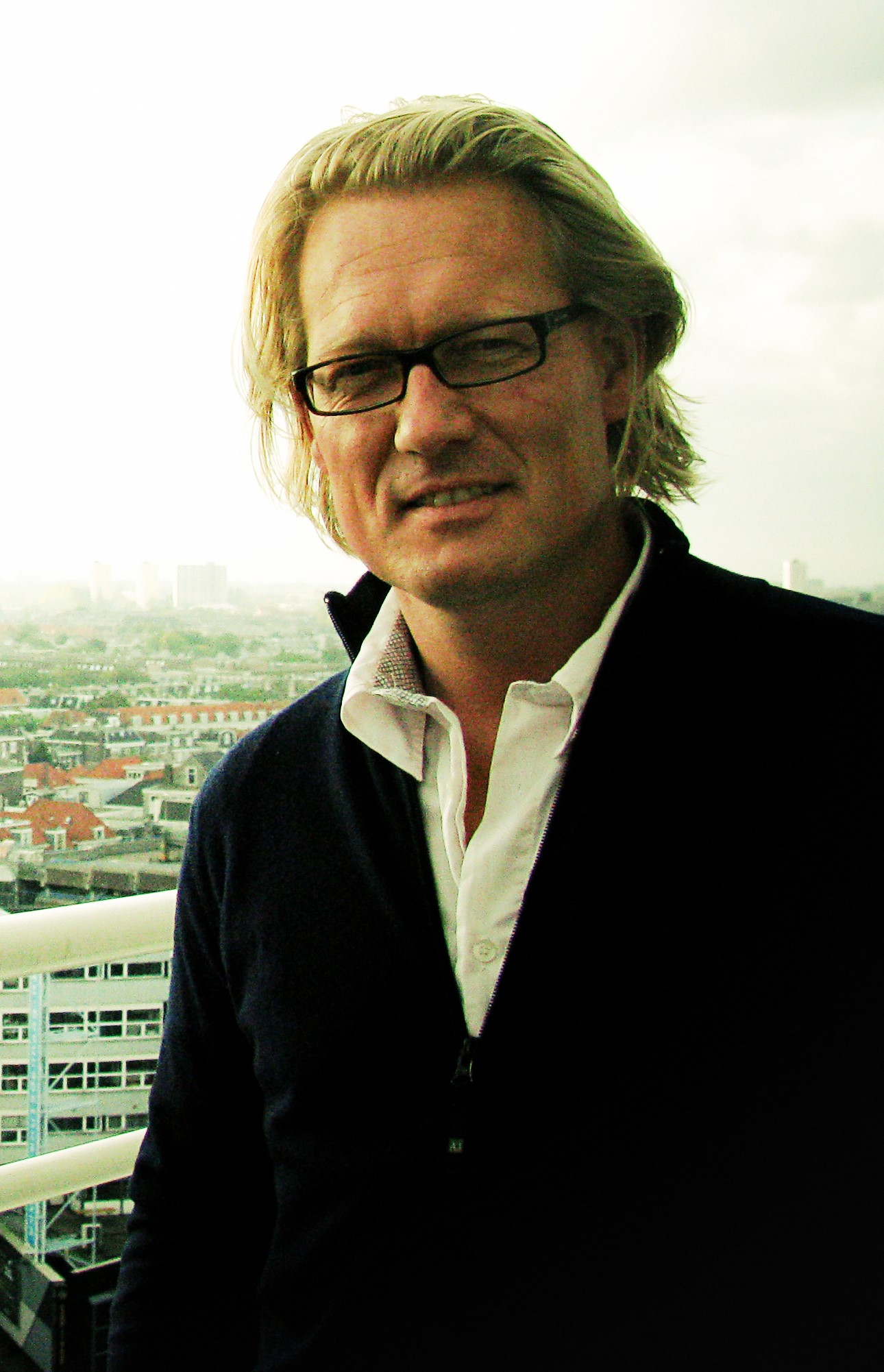 Martin Wörsdörfer (2010)